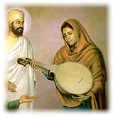 Bebe Nanaki (1464–1518) was the elder sister of Guru Nanak Dev, the founder and first Guru (teacher) of Sikhism.